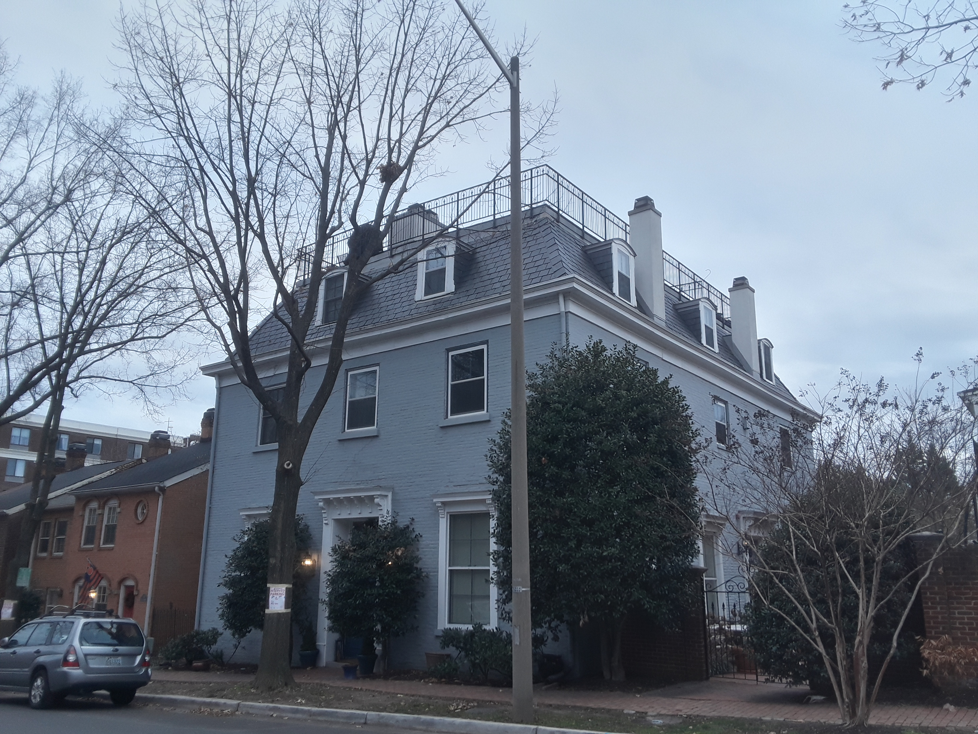 Odd Fellows Hall, Alexandria, Virginia